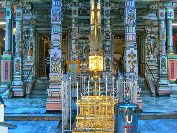 ಶ್ರೀ.ವೆಂಕಟೇಶ್ವರ ದೇವಸ್ಥಾನ. ಇದನ್ನೇ ಸ್ಥಳೀಯರು ಬಾಲಾಜಿ ದೇವಾಲಯವೆಂದು ಕರೆಯುತ್ತಾರೆ.